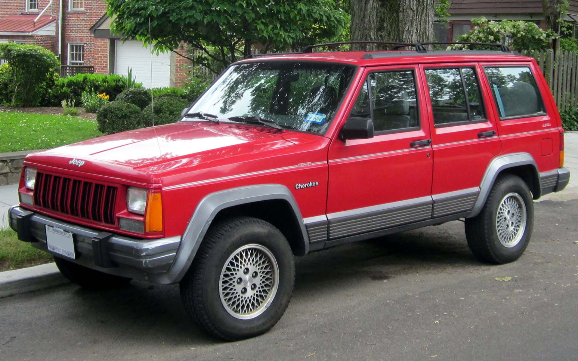 1993-1996 Jeep Cherokee photographed in Washington, D.C., USA.